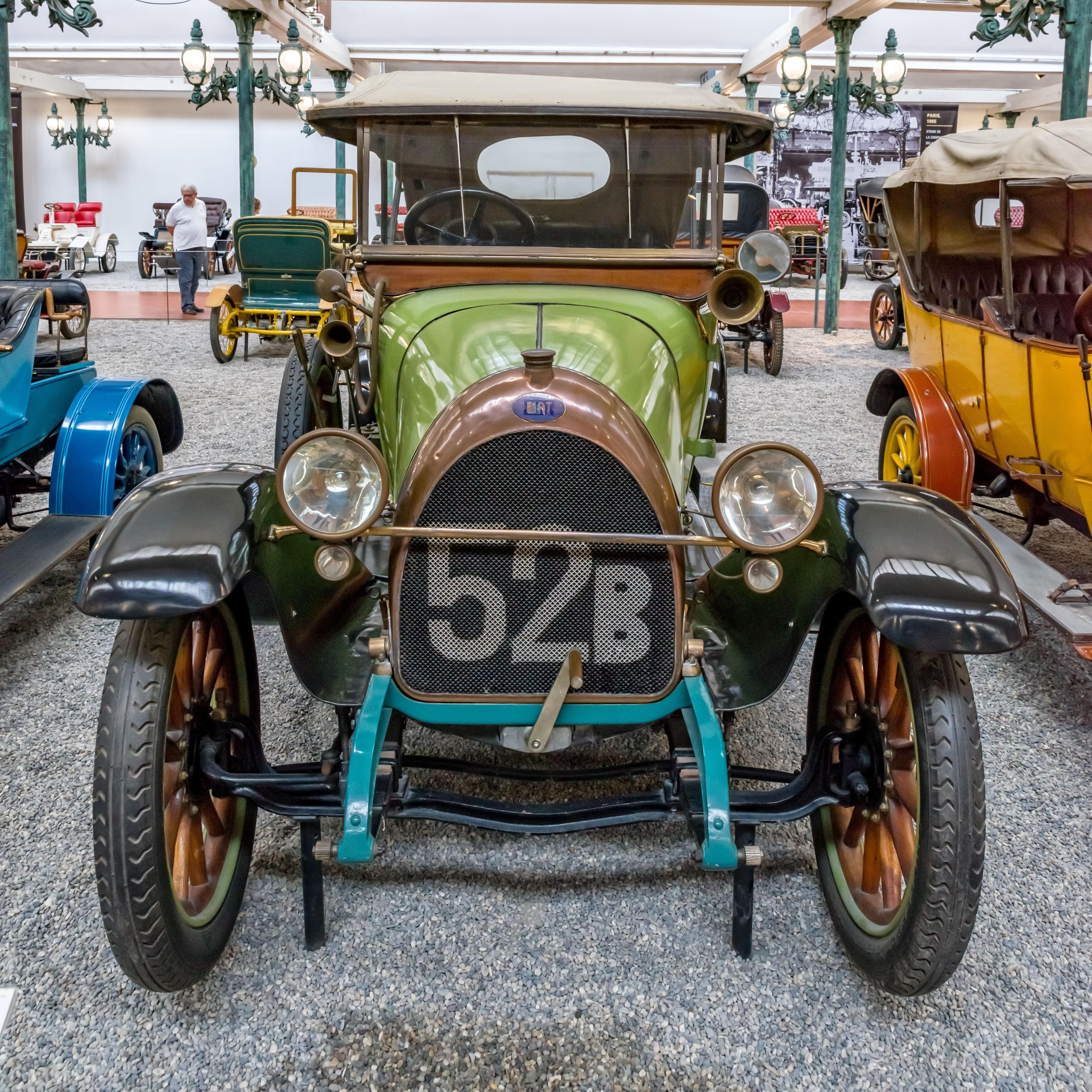 pictures from the Cité de l’Automobile – Musée National – Collection Schlump in Mulhouse, France ptictures from the 10. may 2018